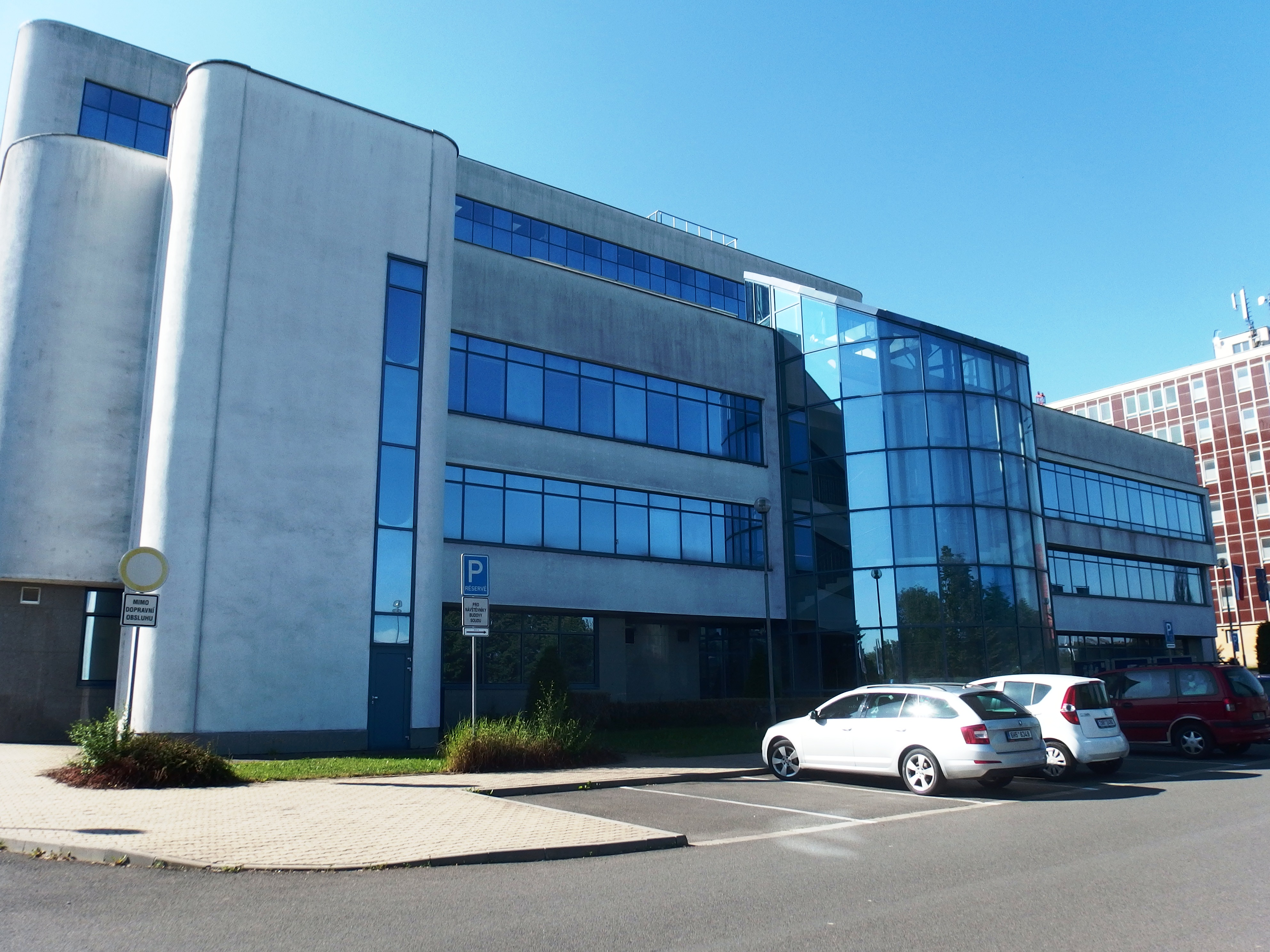 Zlín, Czech Republic.